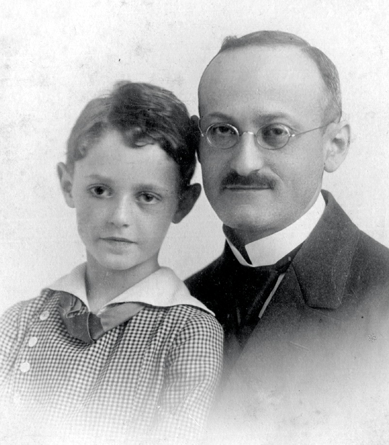 Josef Tal aged 7 with his father Julius Grünthal. Photographed in Berlin